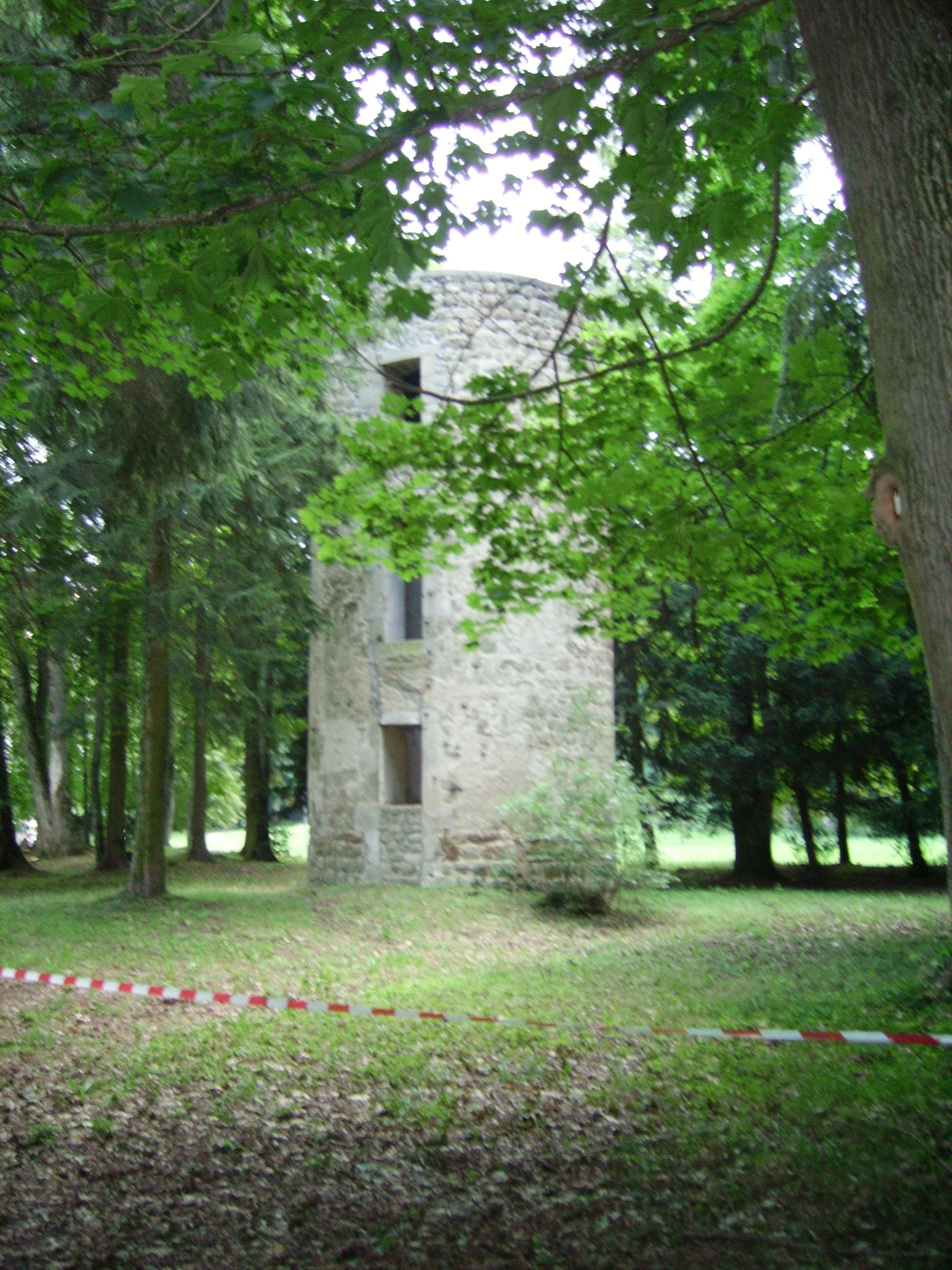 The old tower of Maubourg